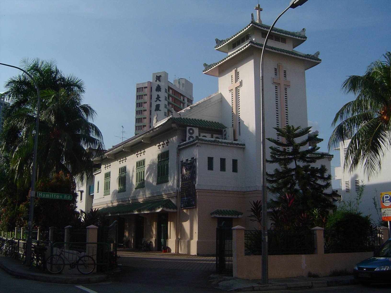 Holy Trinity Church on Hamilton Road near Little India, Singapore.